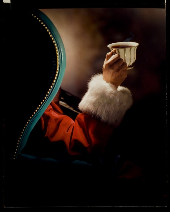 Accession Number: 1971:0049:0027 Maker: Nickolas Muray (American 1892-1965) Title: "A&P, COFFEE, SANTA CLAUS" Date: 1958 Medium: "color print, assembly (Carbro) process" Dimensions: Dimensions Unknown George Eastman House Collection General – information about the George Eastman House Photography Collection is available at For information on obtaining reproductions go to